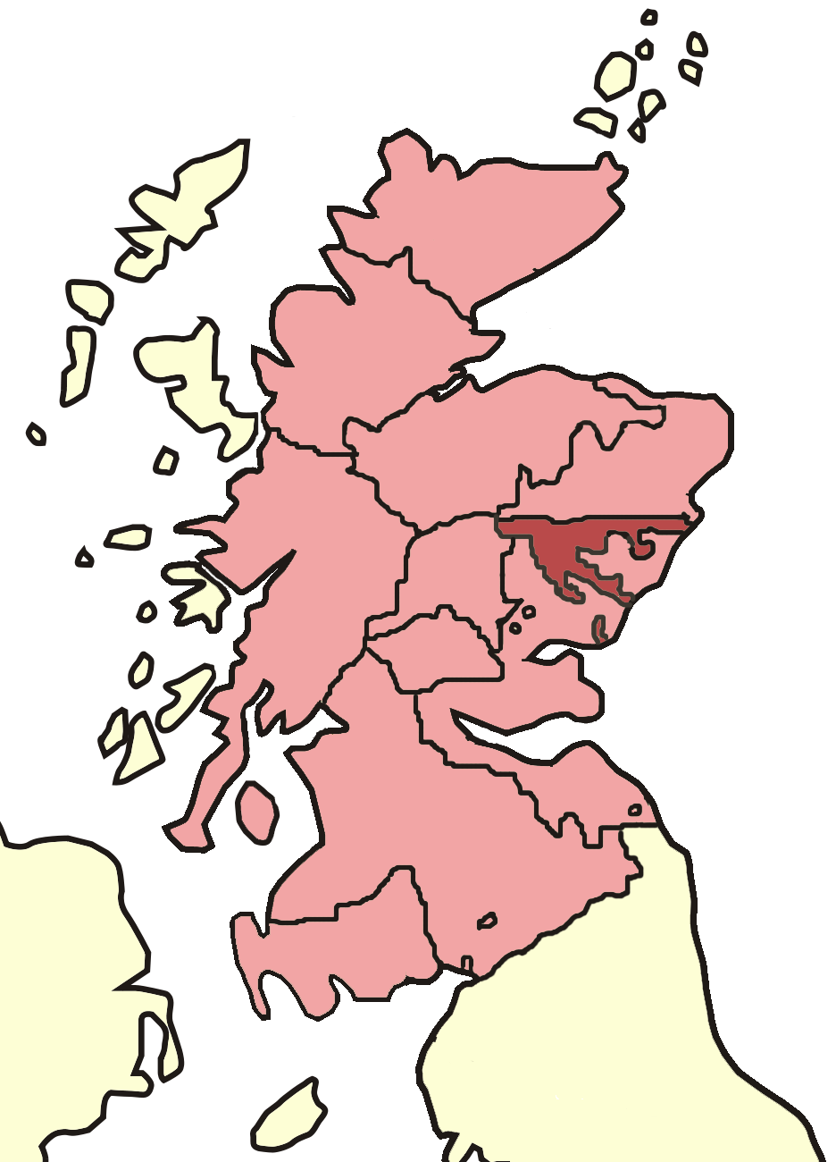 Diocese of Scotland in the reign of king David I. Based on William Forbes Skene's map of 1887.